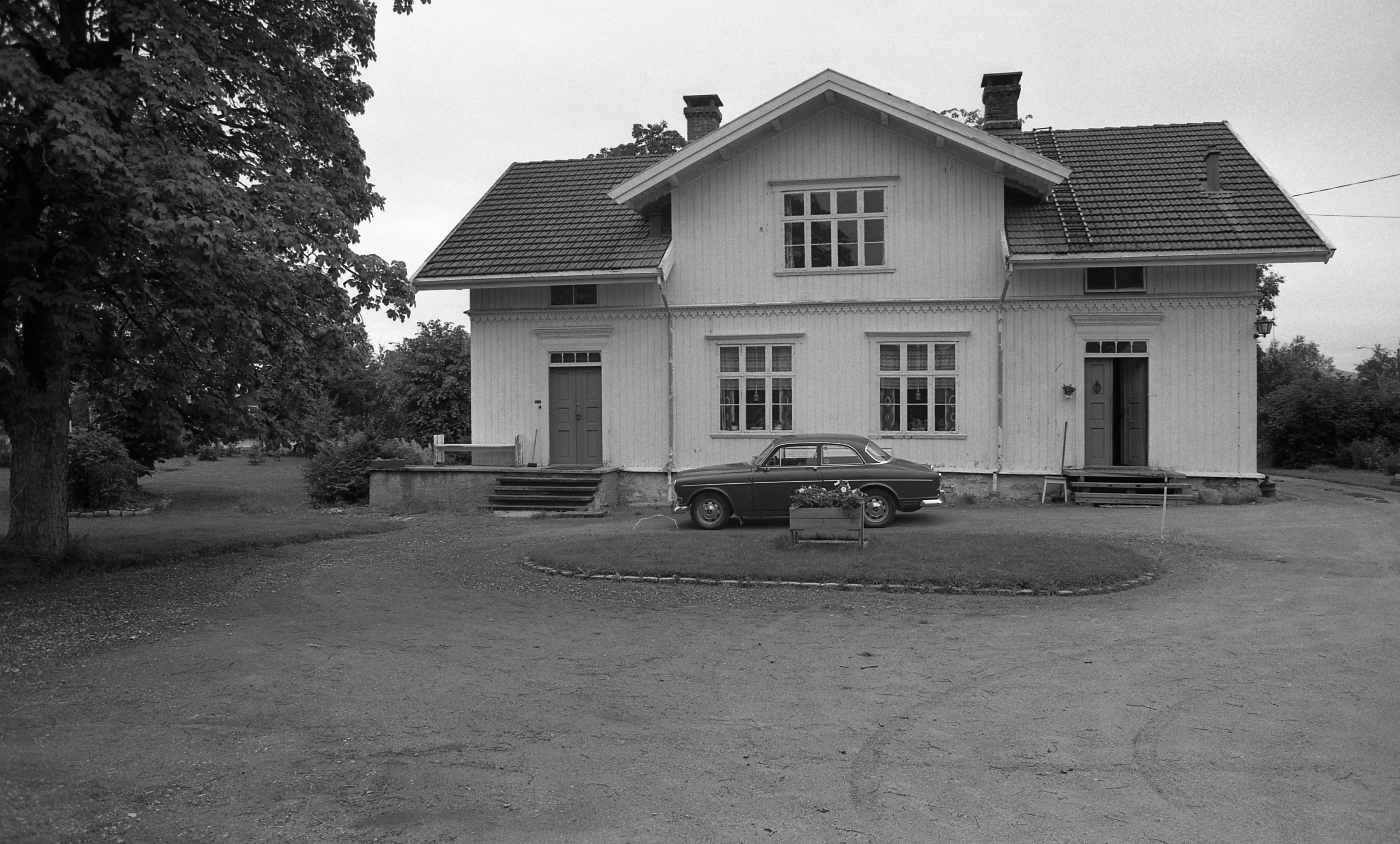 Format: 35 mm svart-hvitt negativ Film: Agfapan 100 Dato / Date: Juli 1982 Fotograf / Photographer: Morten Kerr Sted / Place: Jonsvannsveien 80, Trondheim WikiStrinda: Eberg gård Eier / Owner Institution: Trondheim byarkiv, The Municipal Archives of Trondheim Arkivreferanse / Archive reference: Tor.H43.P3.F12708 - film 229